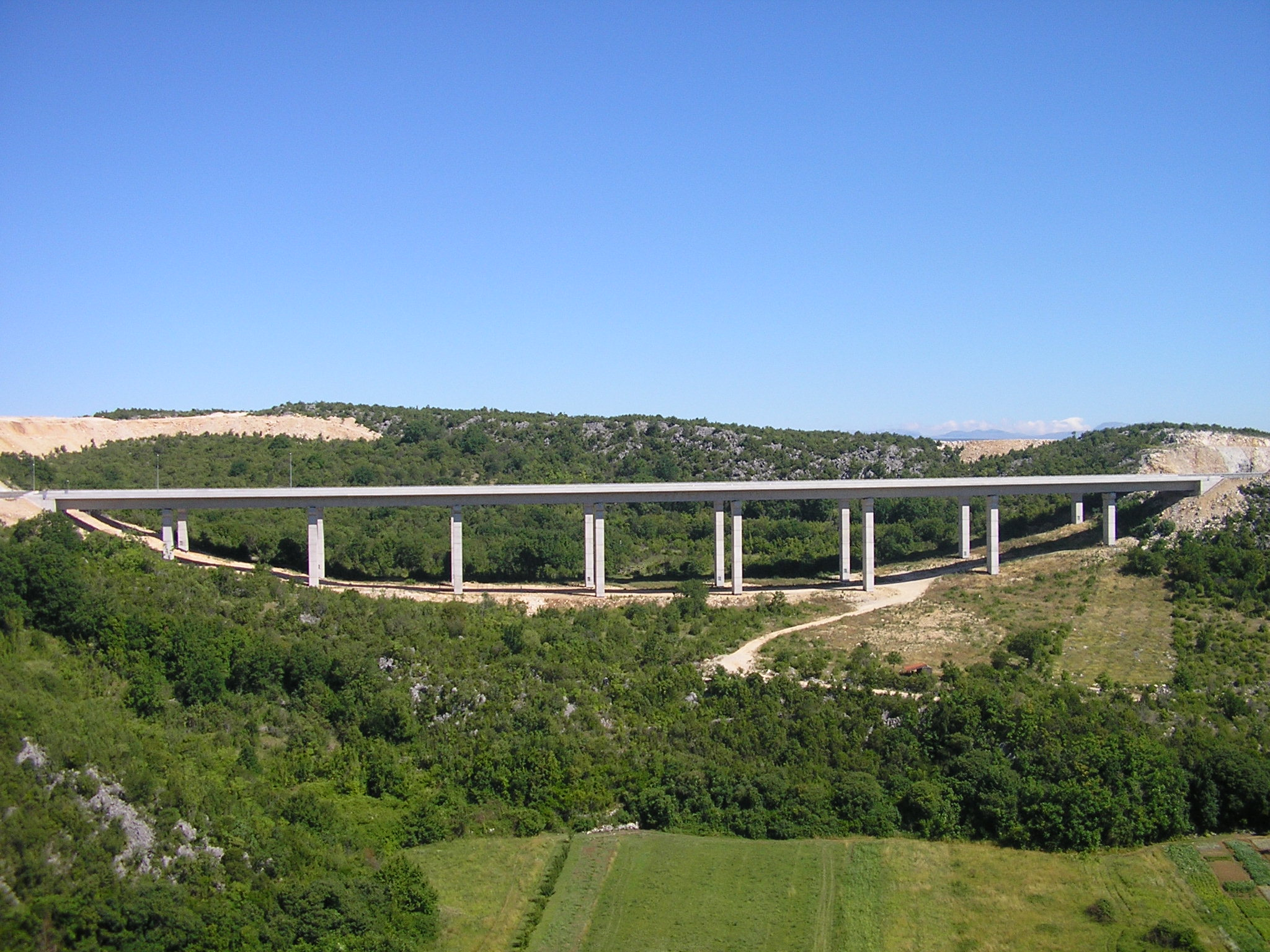 Pavlovići viaduct, near Stubica